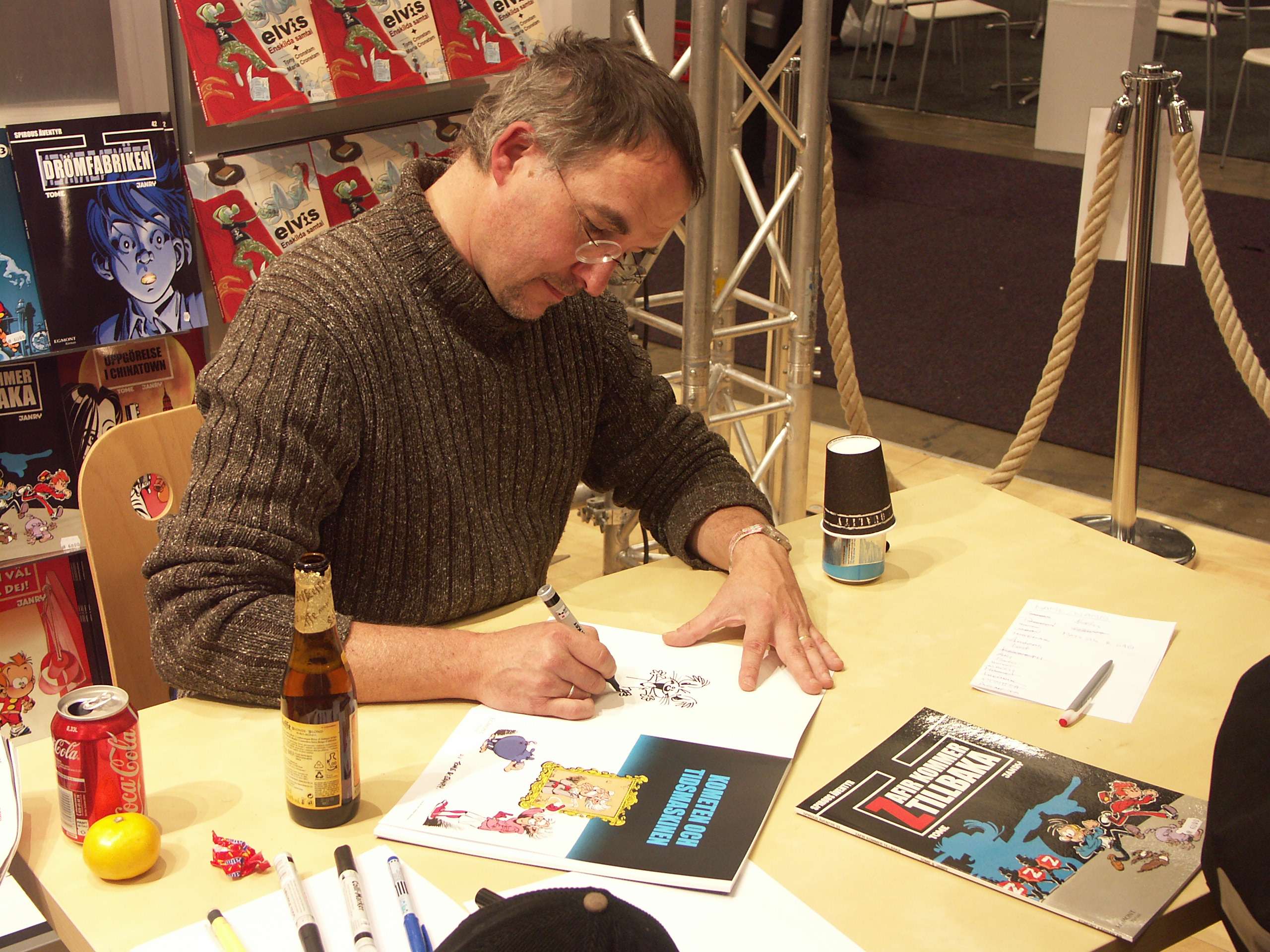 Belgian cartoonist Janry at the 2008 Gothenburg Book Fair.